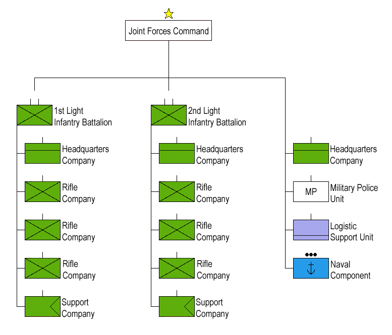 East Timor Armed Forces